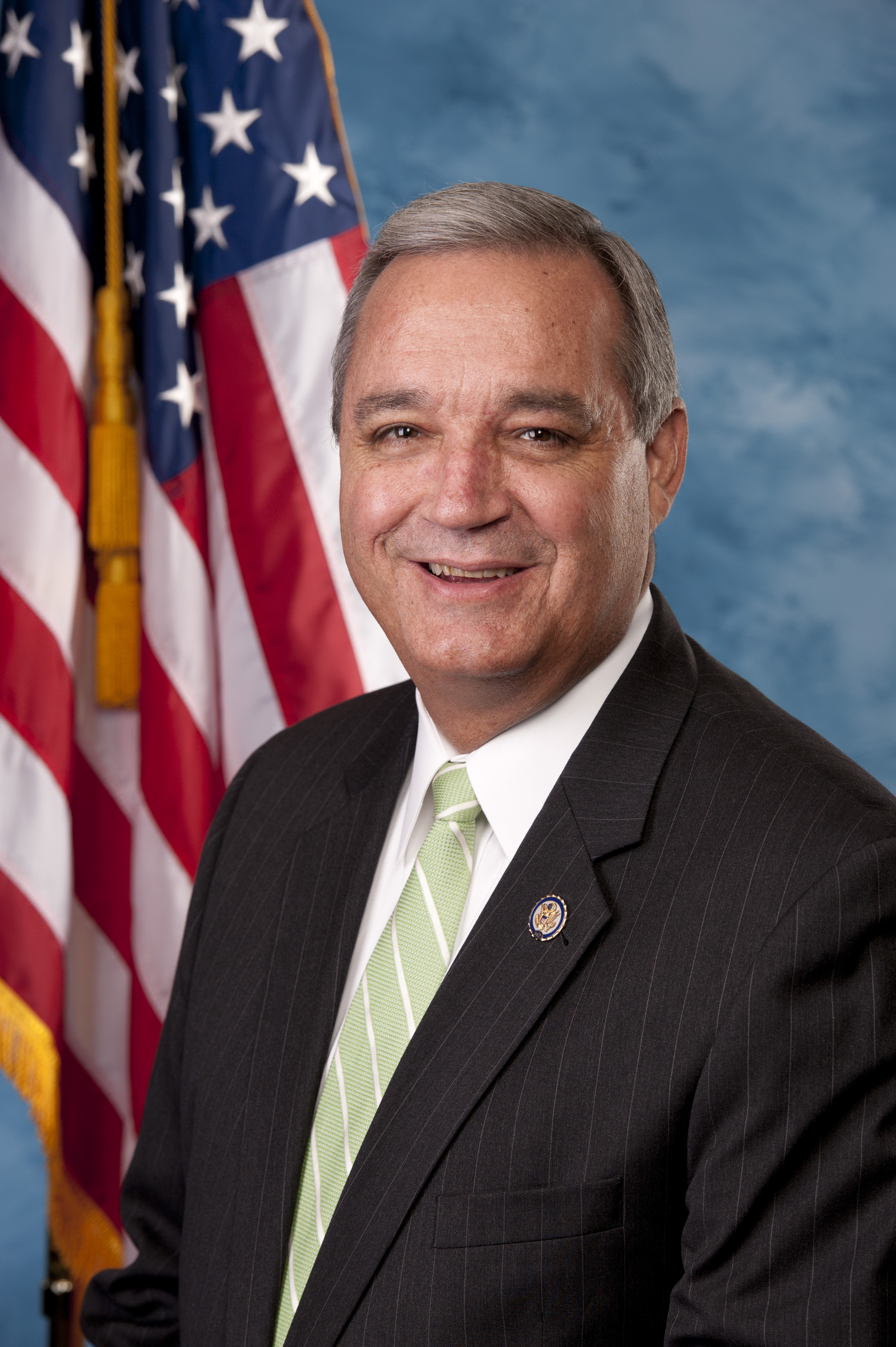 Official Congressional portrait of Congressman Jeff Miller.